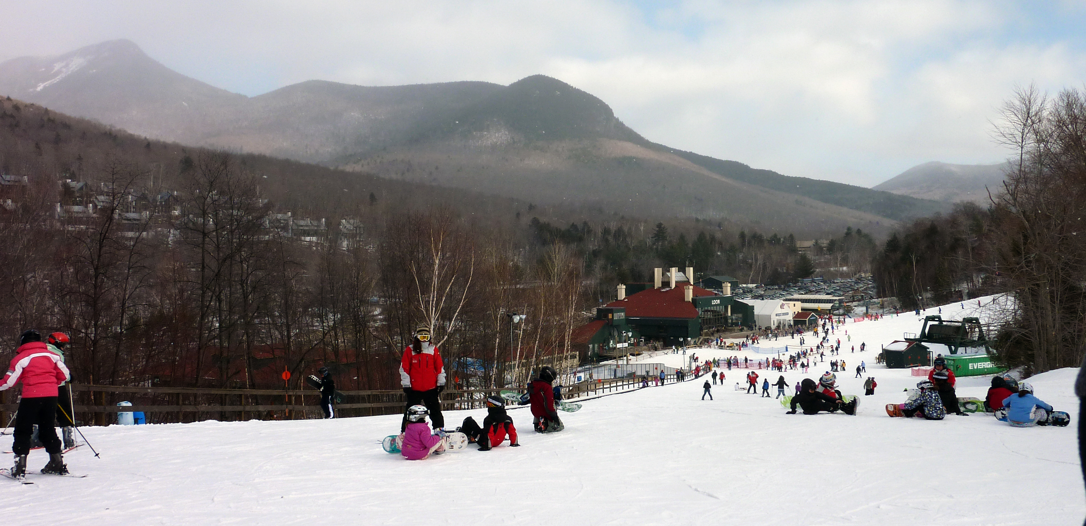 loon mountain ski resort sarsaparilla New Hampshire 2010